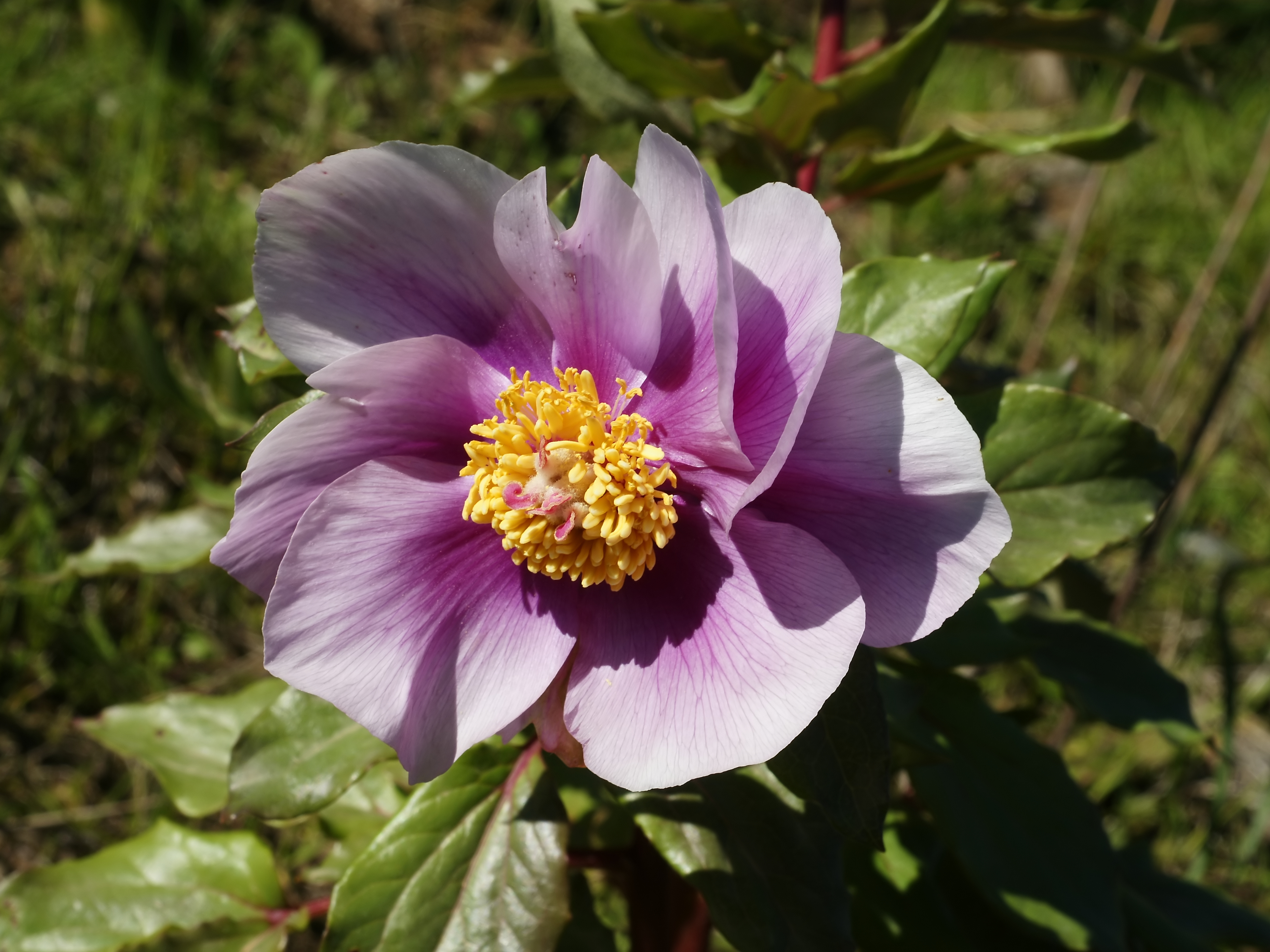 Wild Peony. Sardinia, Italy